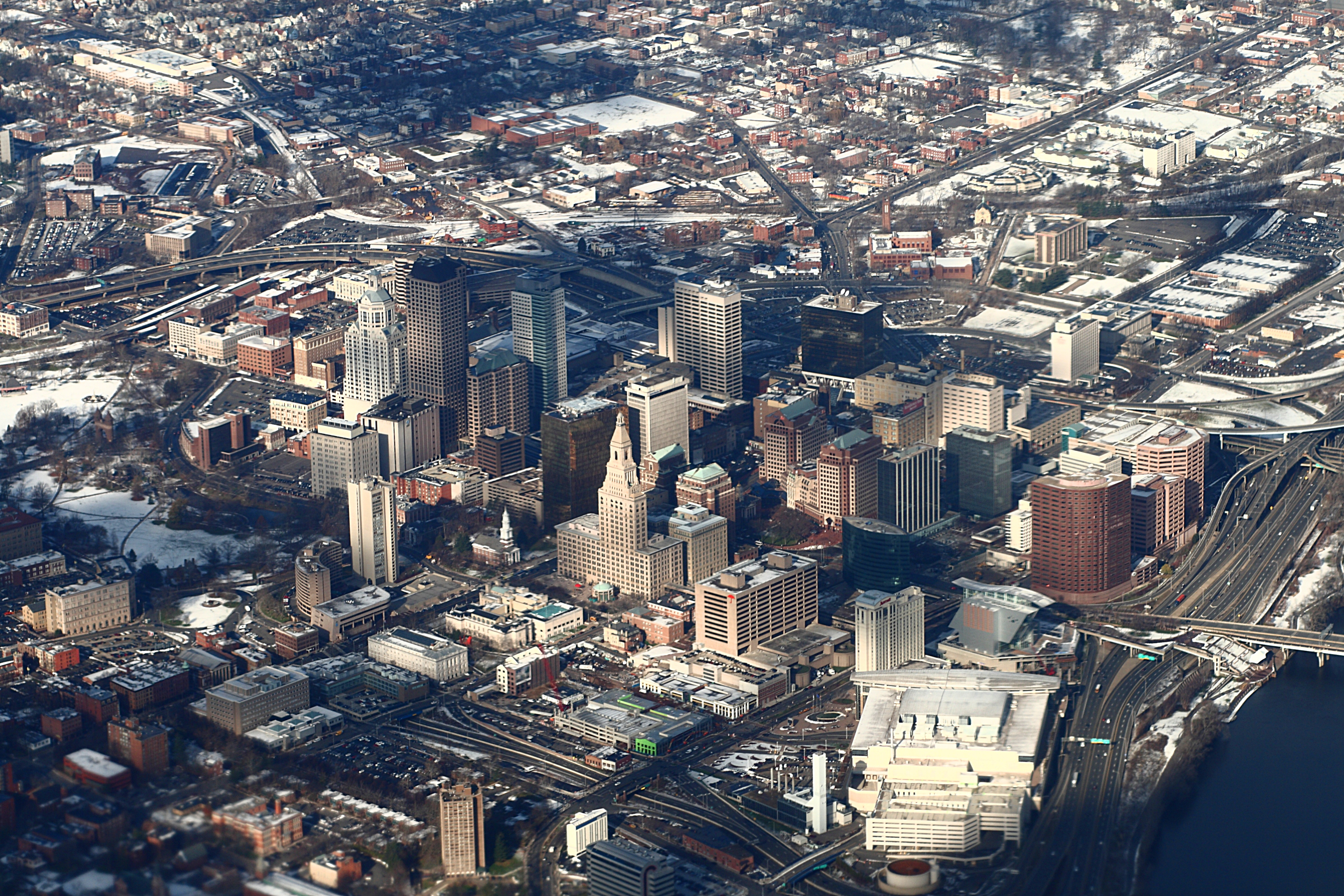 Hartford, Connecticut, viewed from an airplane en route to Bradley International Airport